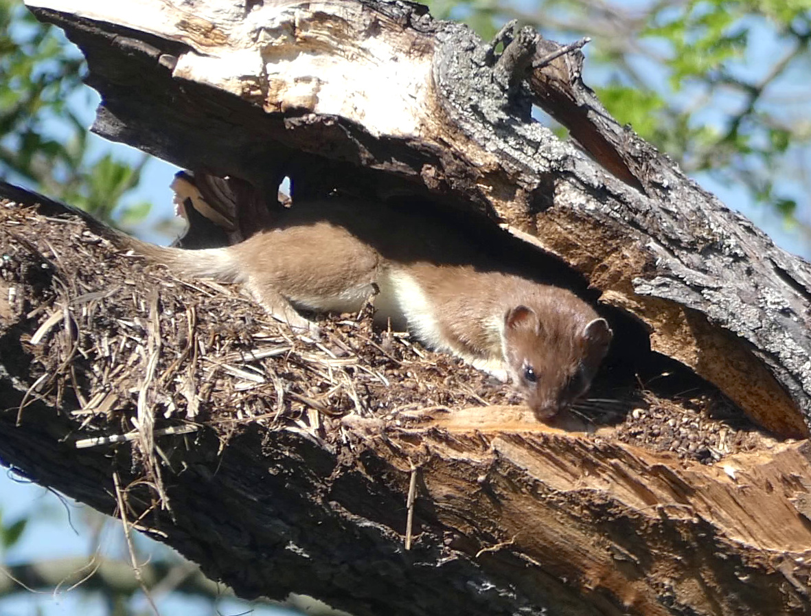 A stoat (Mustela erminea) in a den in a split tree trunk in Reinheim, Germany.